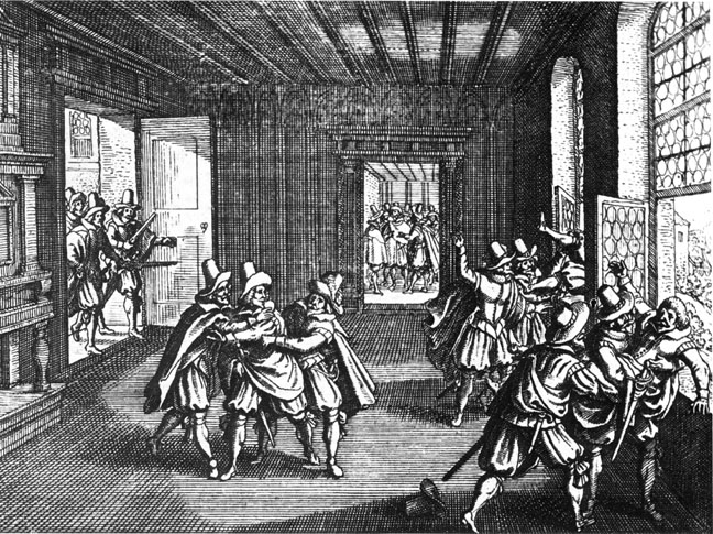 Second Defenestration of Prague